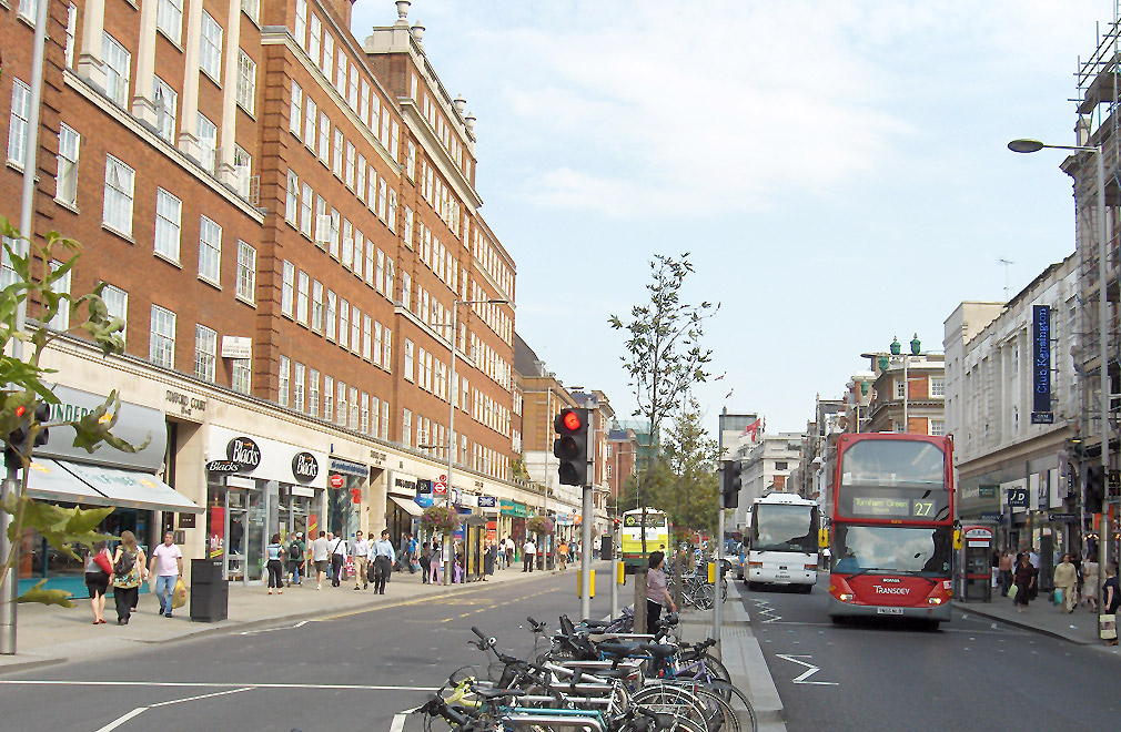 Kensington High Street, looking towards Knightsbridge (September 2006)